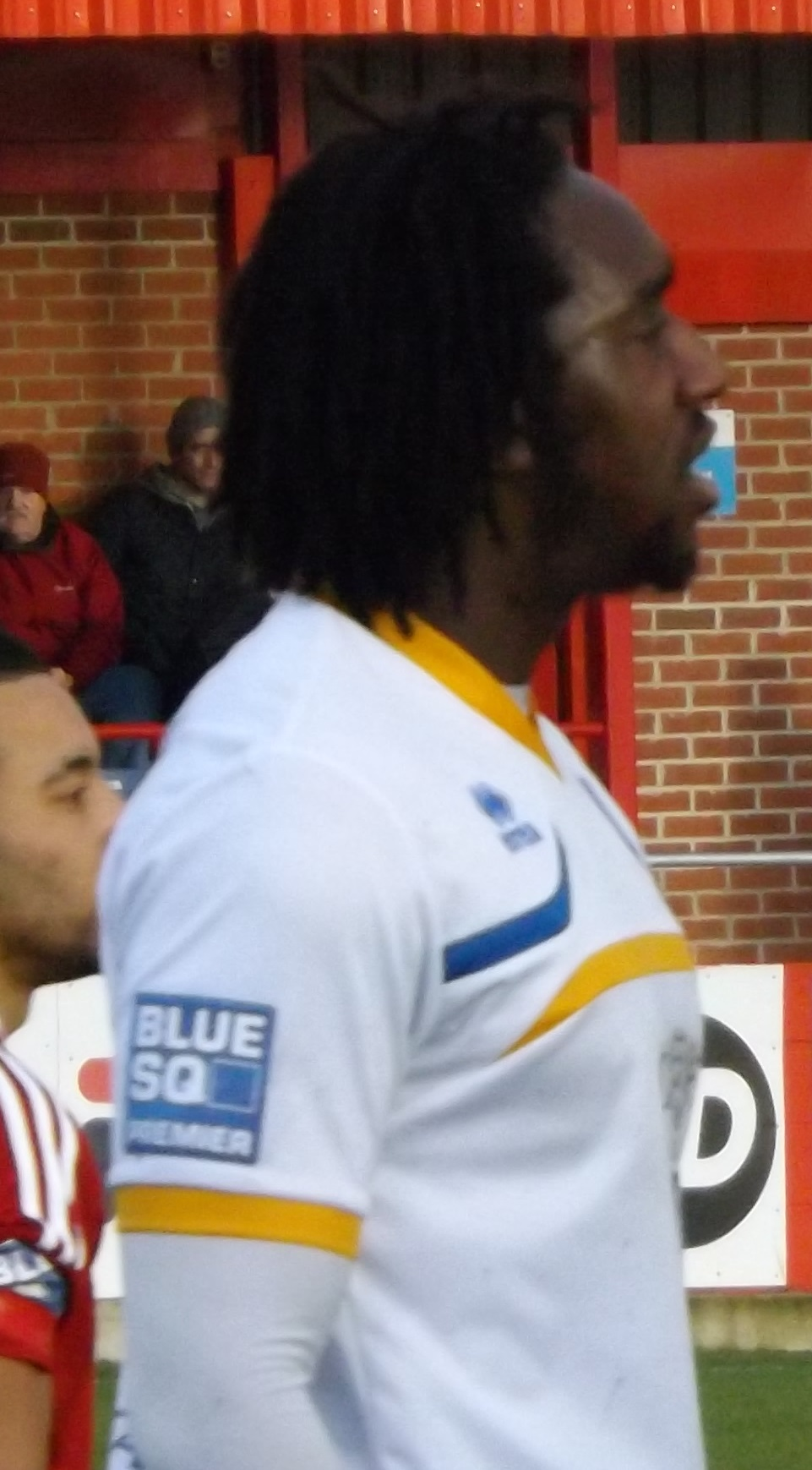 Exodus Geohaghon. Image cropped from original at flickr.